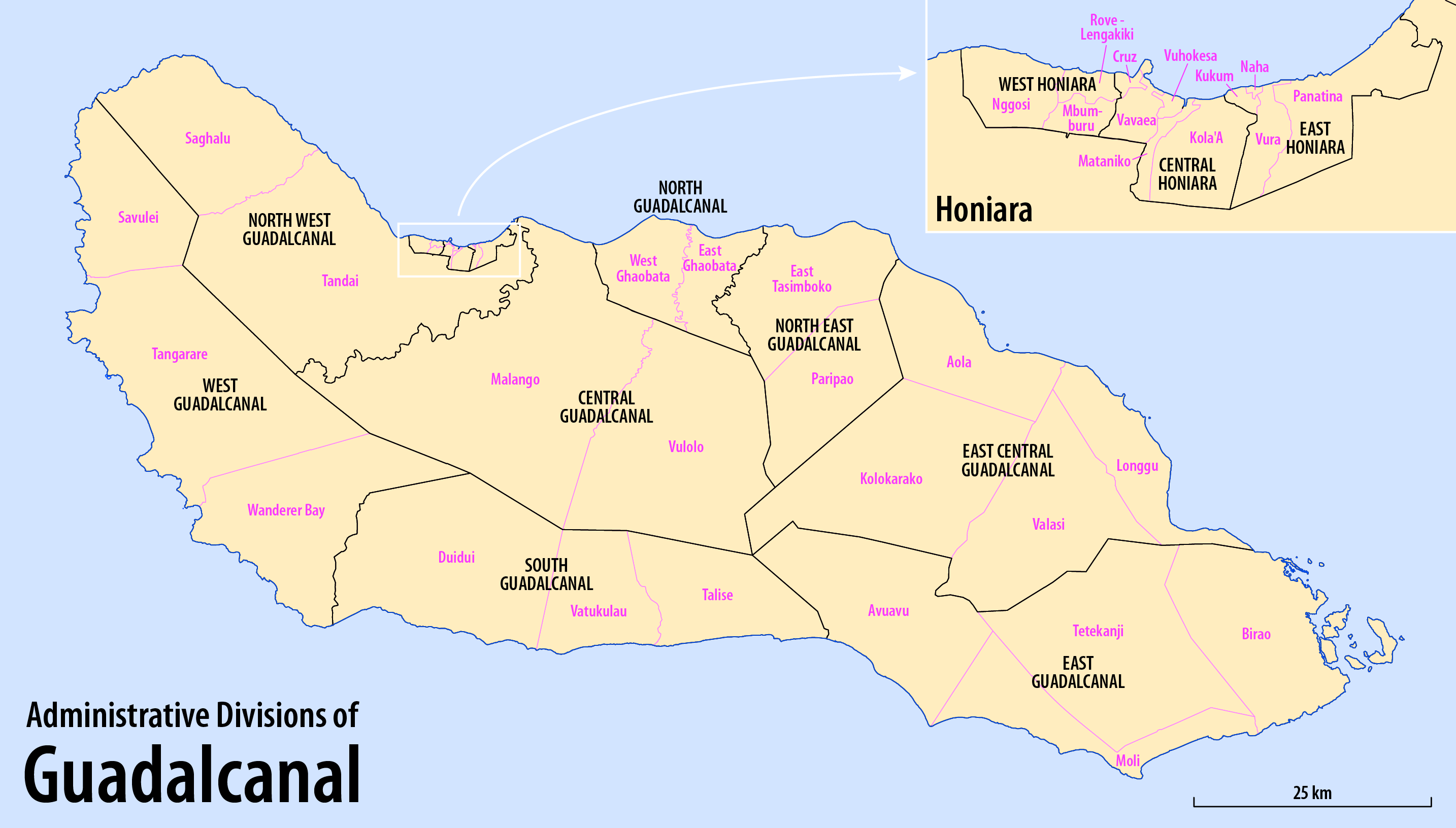 Map Administrative Divisions of Guadalcanal (Solomon Islands)